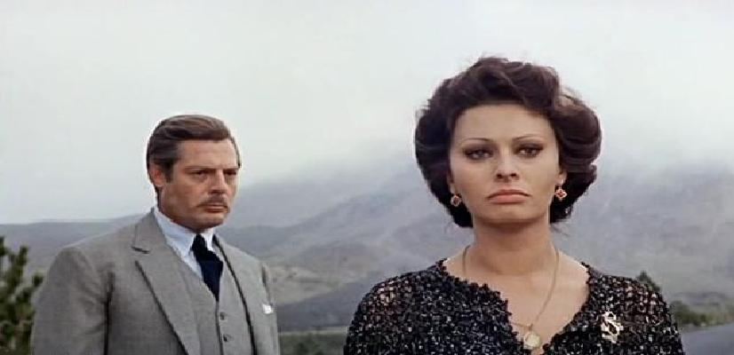 Image from the film "Matrimonio all'Italiana" (1964). Sophia Loren and Marcello Mastroianni.